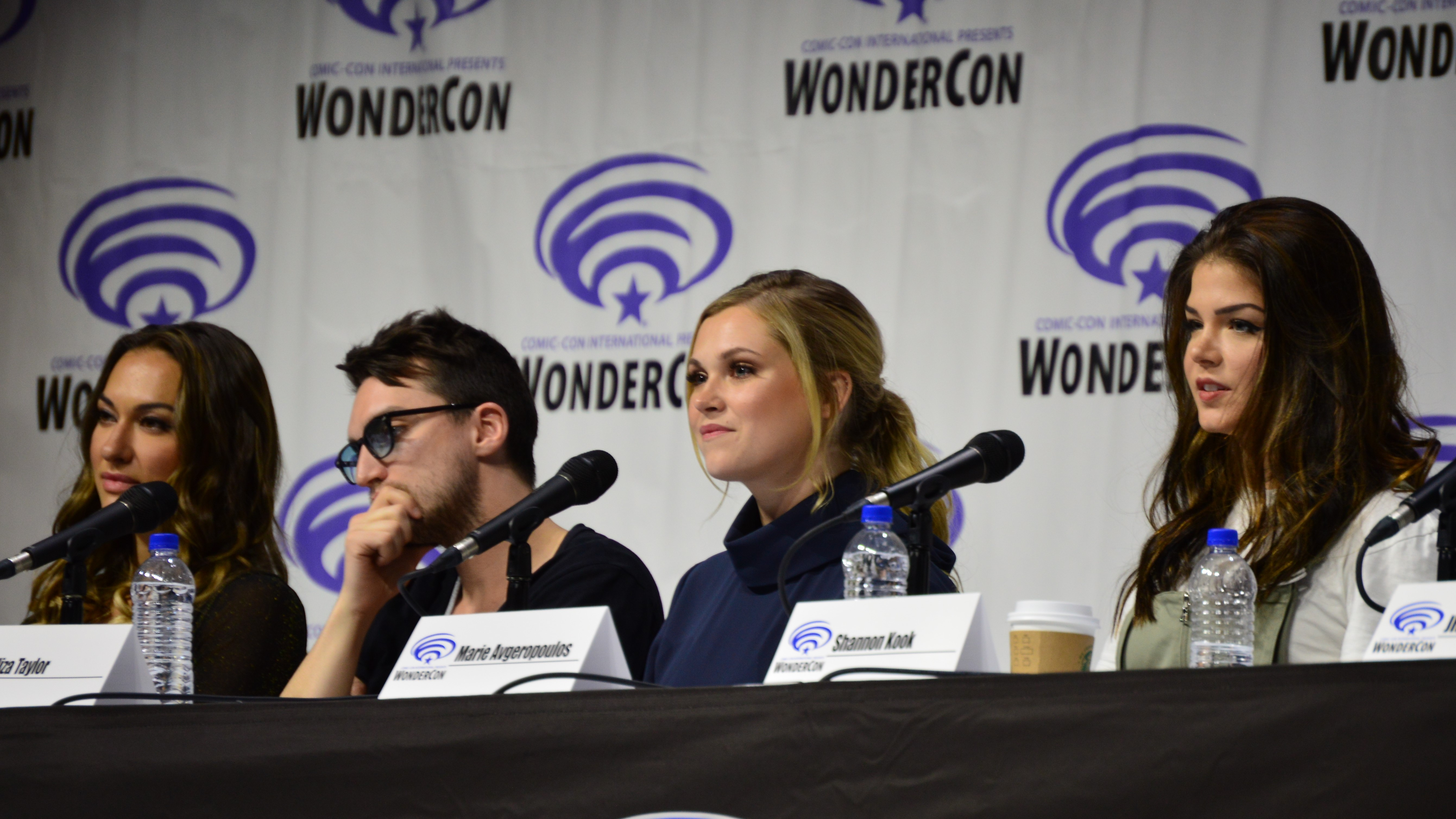 The 100 cast at WonderCon 2019